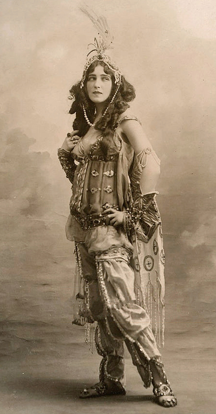 Ida Rubinstein, Russian ballerina, 1910. Rubinstein (1885-1960) in the Ballets Russes production of Nikolai Rimsky-Korsakov's 'Scheharazade'. From a private collection.